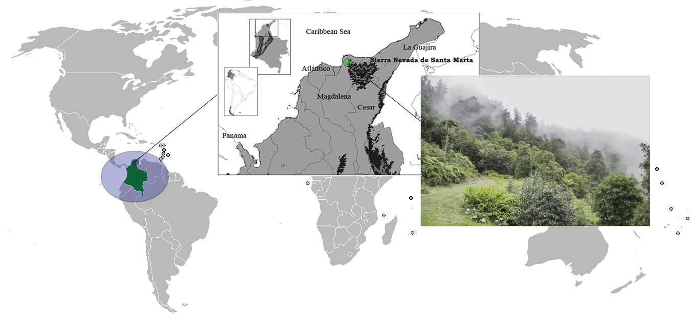 Kankuamo marquezi is Found At a national Natural Park in Sierra Nevada, Colombia.